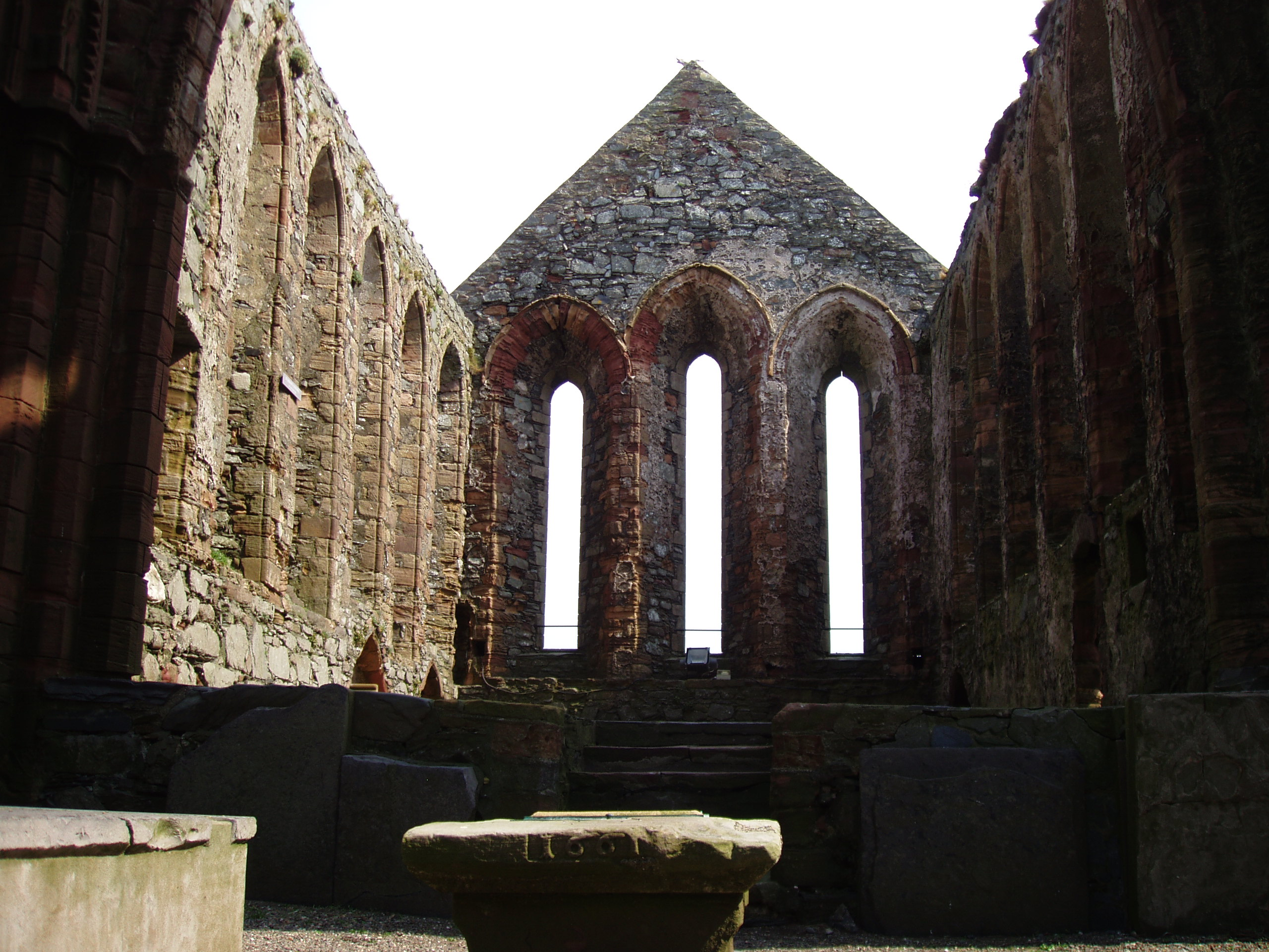 Ruins of the former Cathedral of St. German which stand within the walls of Peel Castle in Peel, Isle of Man. With the camera located in the cathedral's transept pointing east, this is the view of the chancel with its raised floor.